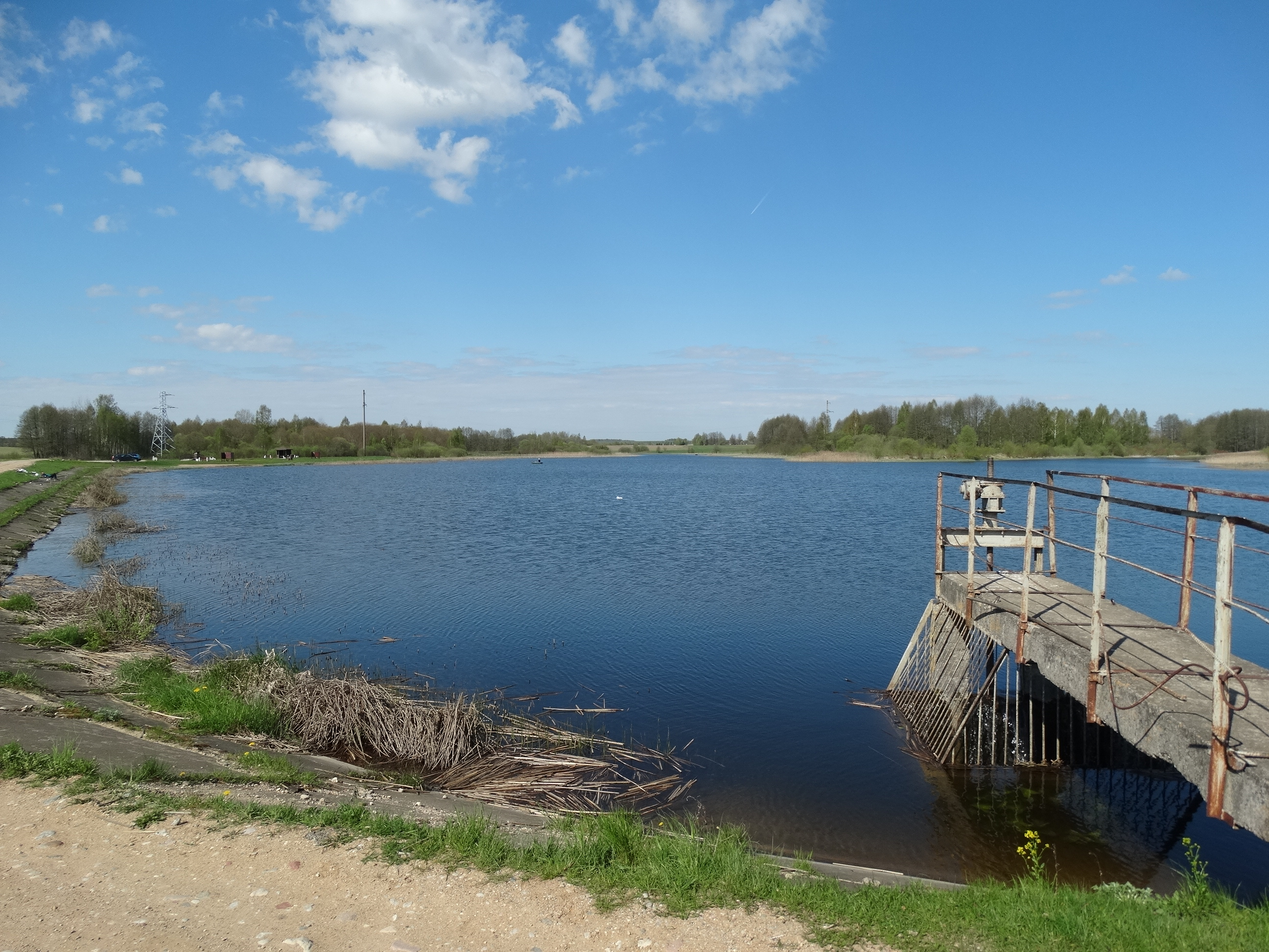 Rakliškės Pond, Šalčininkai District, Lithuania